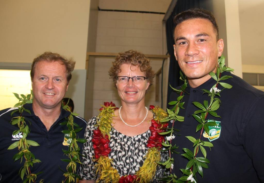 Sonny Bill Williams in Samoa, with NRL CEO David Smith and Sue Langford (Australian High Commissioner to Samoa). Williams was part of a high-profile delegation to launch the NRL's Pacific Strategy in Samoa.